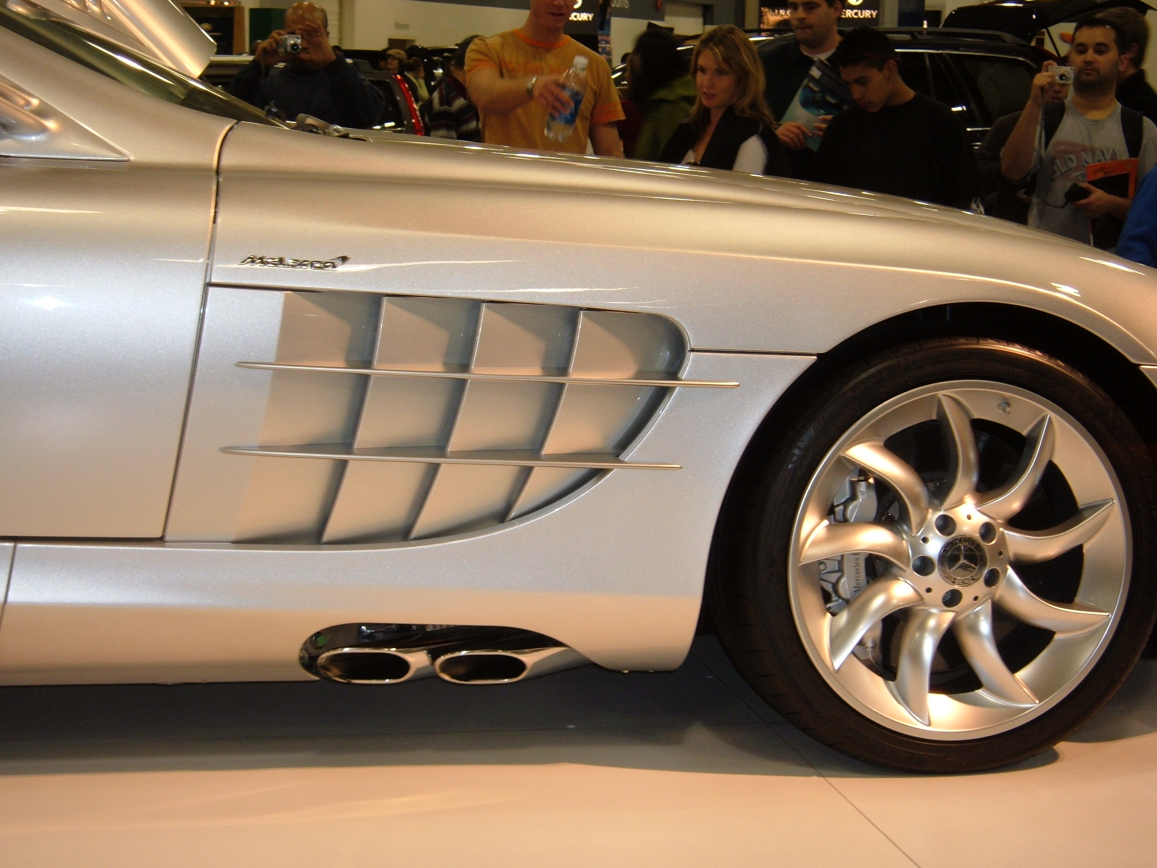 The passenger side exhaust pipes of a 2005 Mercedes SLR at the 2004 San Francisco International Auto Show.